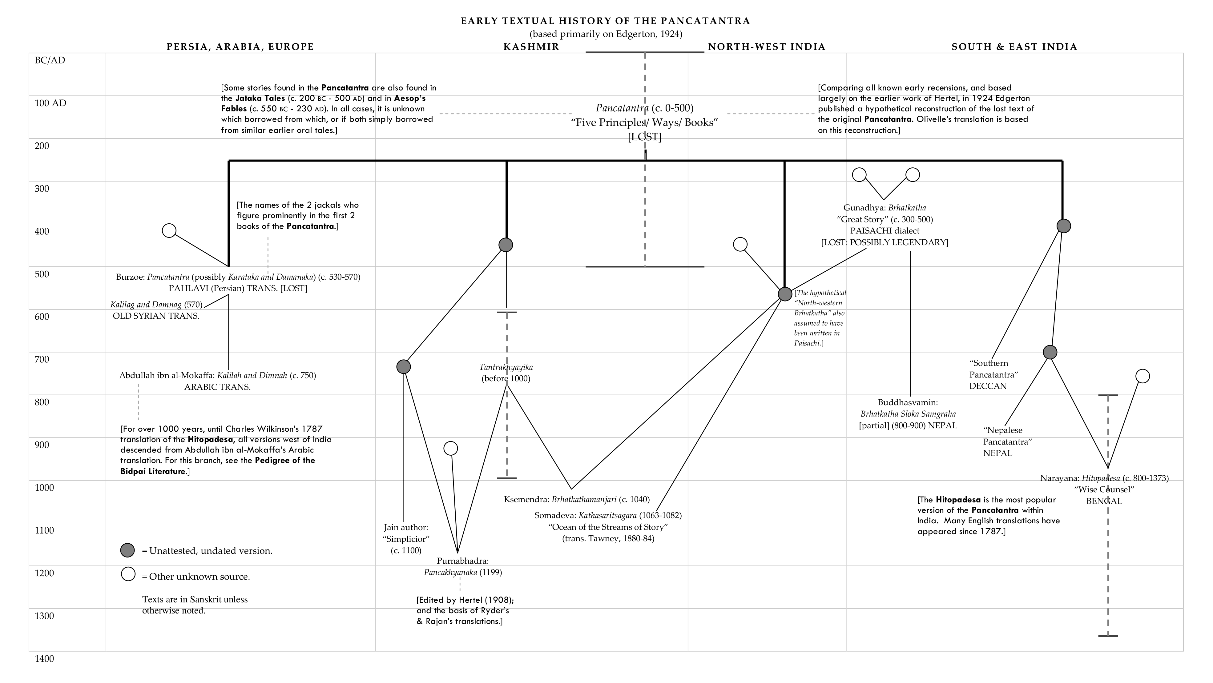 Pedigree of Pancatantra recensions and translations, and some related works as hypothesized by Edgerton in 1924. More recent scholarship generally places the text to about 300 BCE, with roots in more ancient fables of oral tradition. See Patrick Olivelle (2009), Pañcatantra: The Book of India's Folk Wisdom, Oxford University Press, Chapter: Introduction.